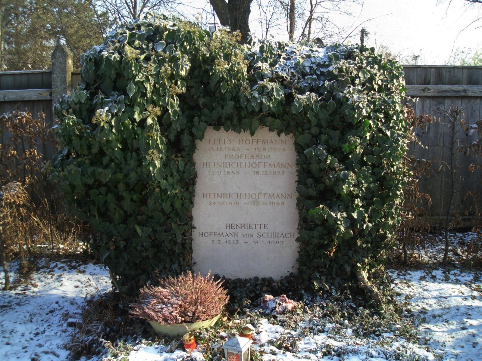 Grave of German photographer Heinrich Hoffmann with his daughter Henriette von Schirach in Nordfriedhof München